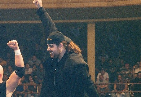 Sign Guy Dudley at an ECW on TNN Taping in August 2000. Cropped from original.